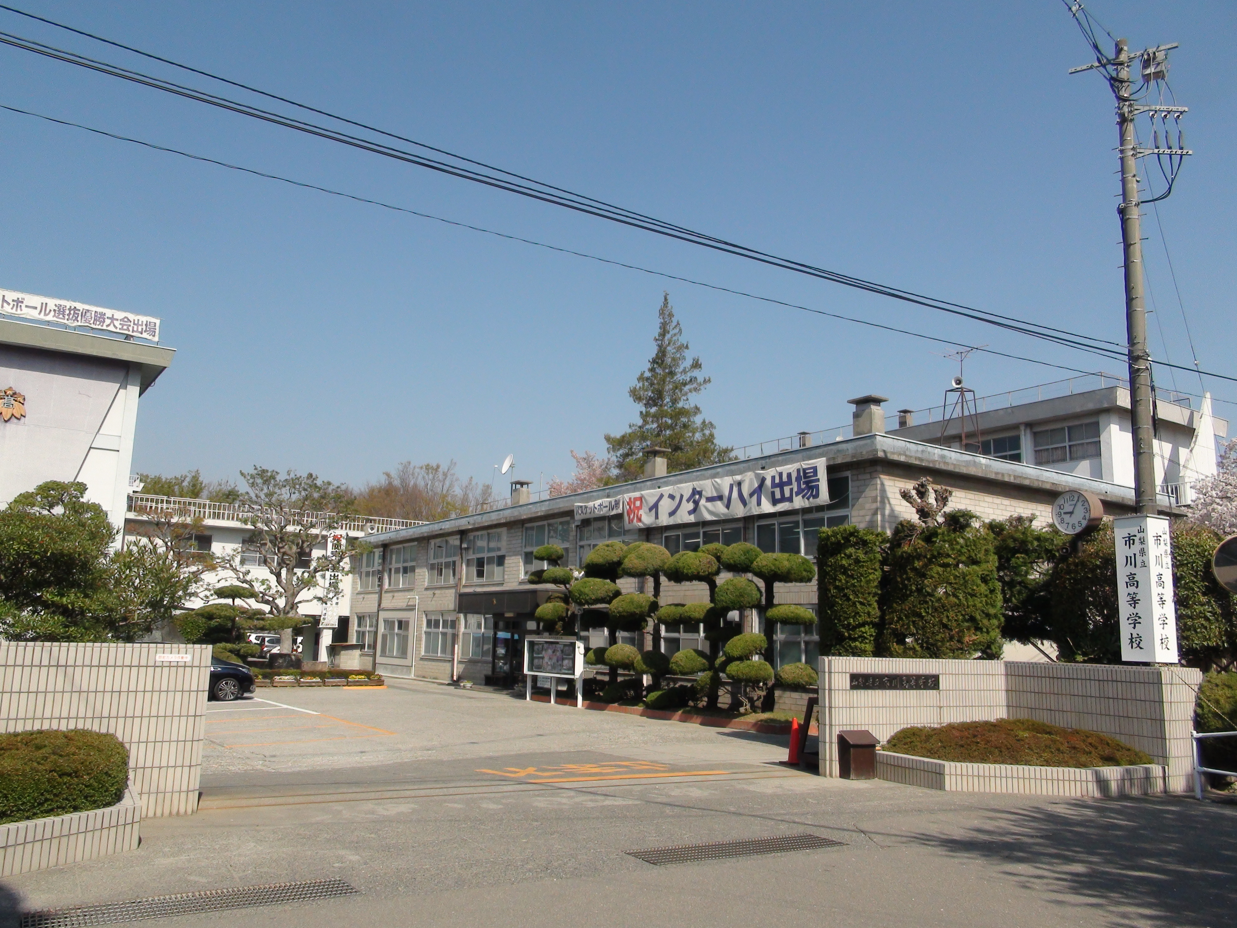 Yamanashi prefectural Ichikawa High School.Apr.2014